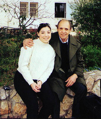 Photo of Helena Pajovic and her father, taken at Metulla, Israel, shortly before they both died in a car crash.